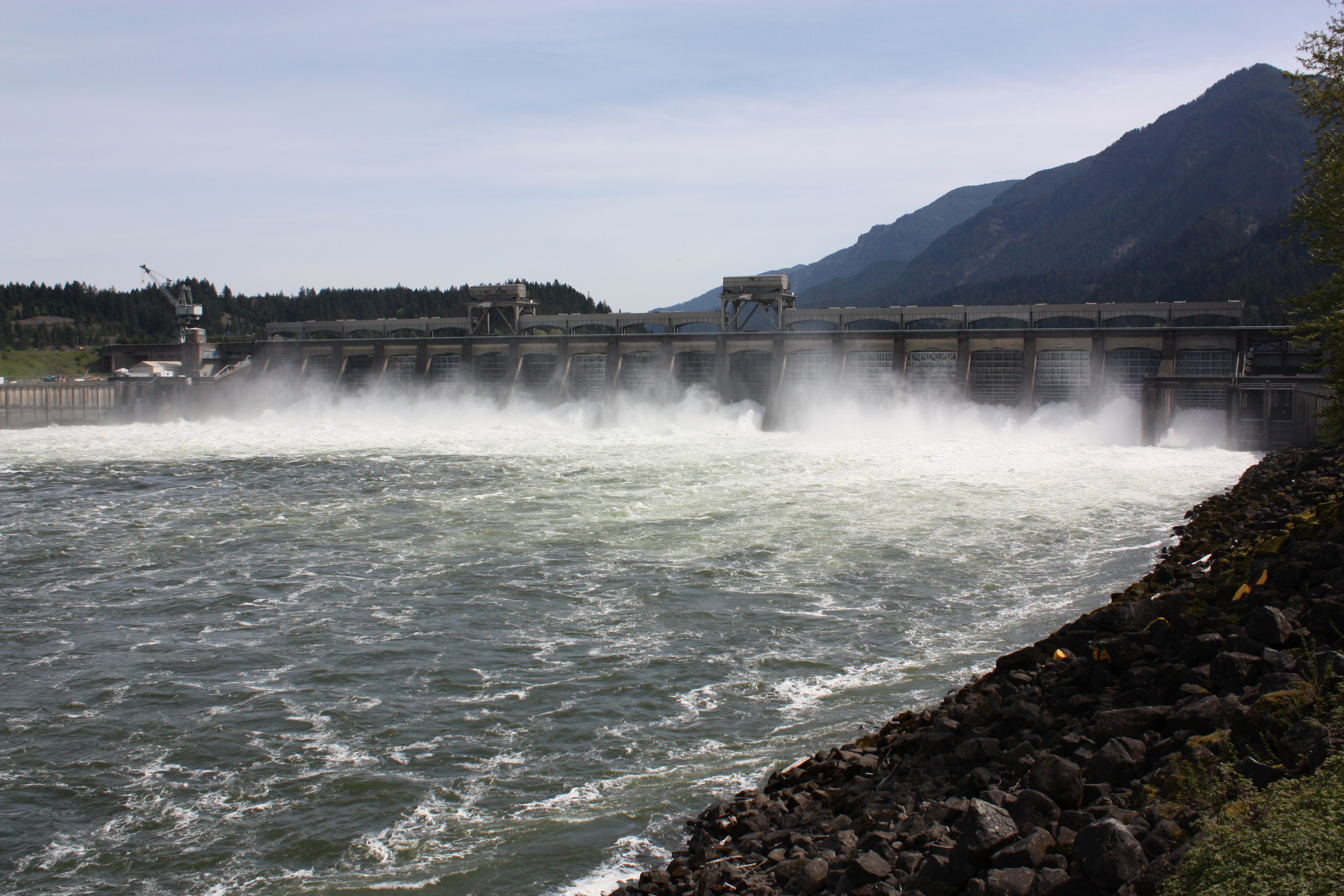 Bonneville Dam Spillway; Table Mountain landslide (left skyline)